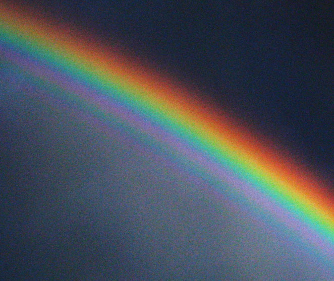 A supernumerary rainbow. The image has been enhanced by dramatically increasing the contrast from the original and by cropping to emphasise the strongest portion of the supernumerary arcs. The supernumerary bows are the repeated green and violet bands just inside the primary bow. The related picture, taken a few minutes later, shows the supernumerary arcs more clearly. Keywords: Supernumerary rainbow, rainbow, airy arc